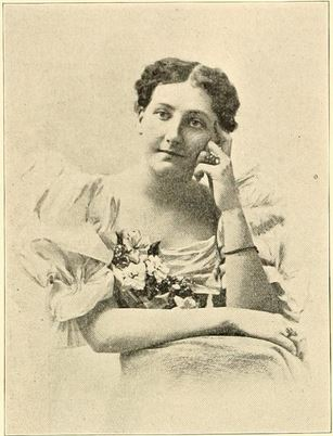 Miss McPherson